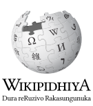 A logo for Wikipedia in the Shona language.